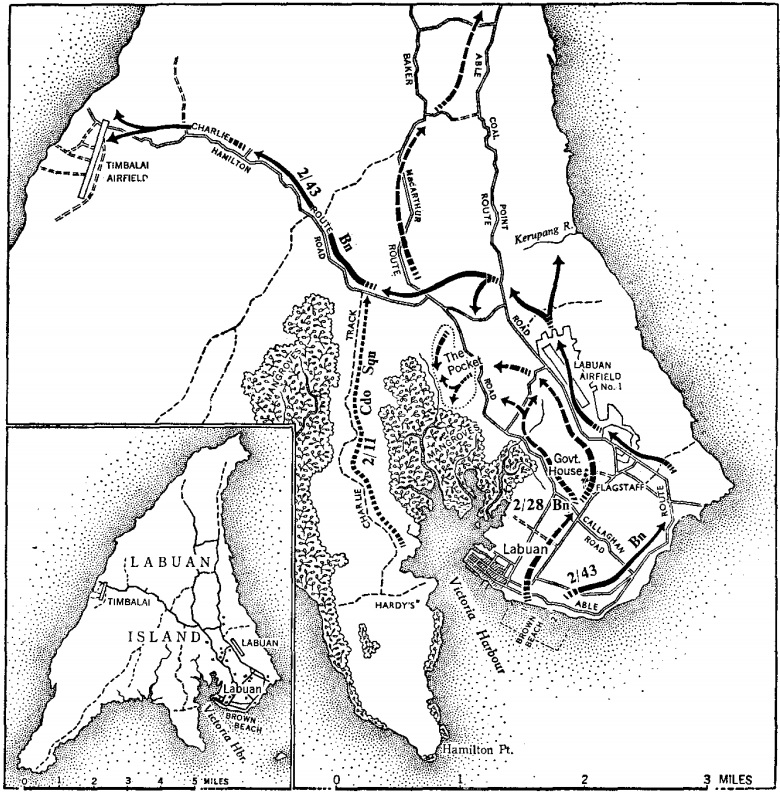 A map showing the fighting on the island of Labuan between 10 and 21 June 1945